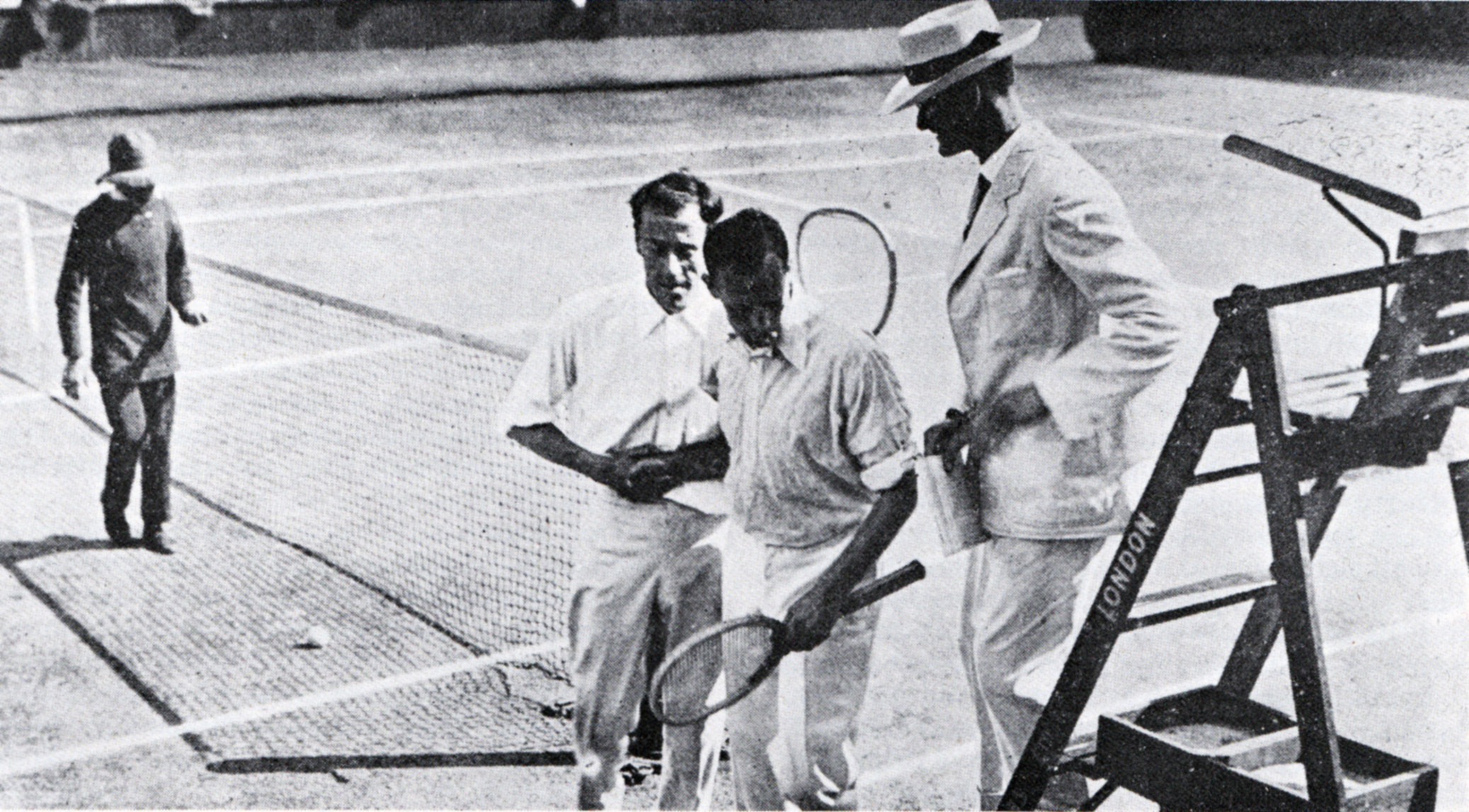 At the Wimbledon finals (challenge round) 1914, Brooks vs Wilding Depicted persons: Norman Brookes (1877-1968), Australian tennis player Anthony Wilding (1883-1915), tennis player from New Zealand